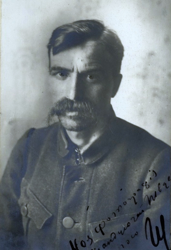 Andriy Huliy-Hulenko(klimenko), photo after his arrest by Soviet authorities in 1922. The photo has Huliy-Hulenko's signature on it.